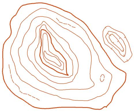 Contour lines for orienteering maps. Created by MrD (in the cartography program OCAD